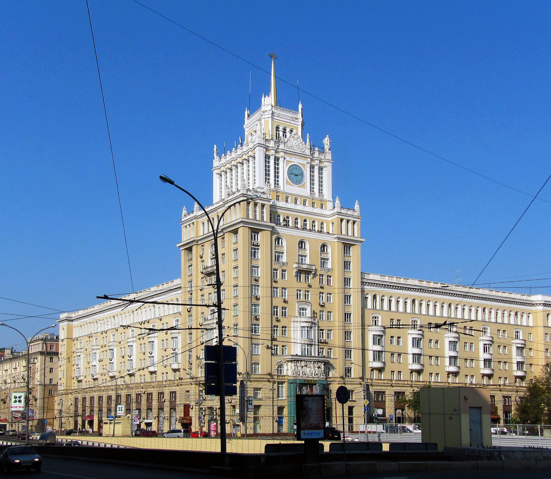 Beijing Hotel in Moscow built by architect Dmitry Chechulin at 1956.